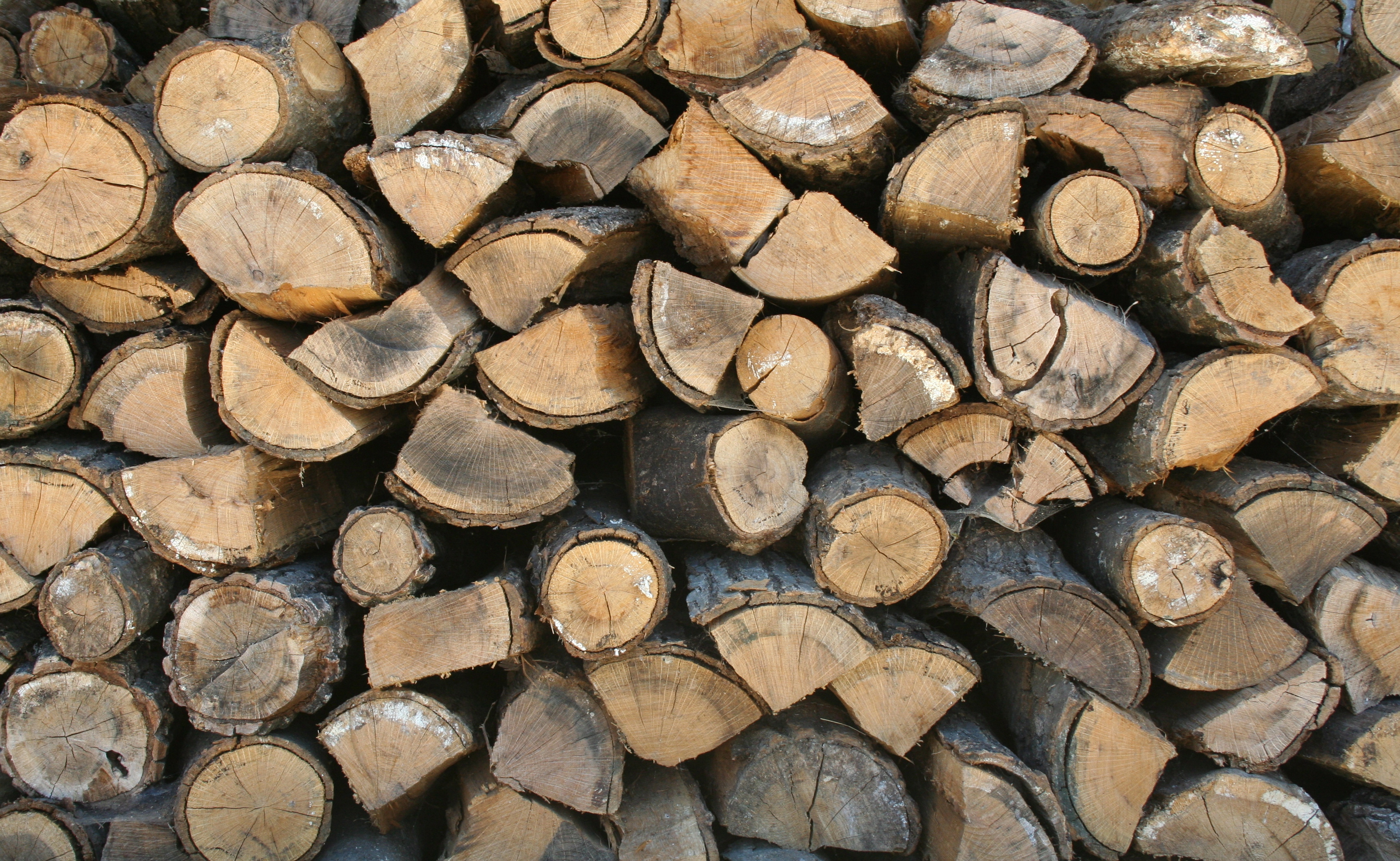 Logs for use as firewood, stacked to dry.